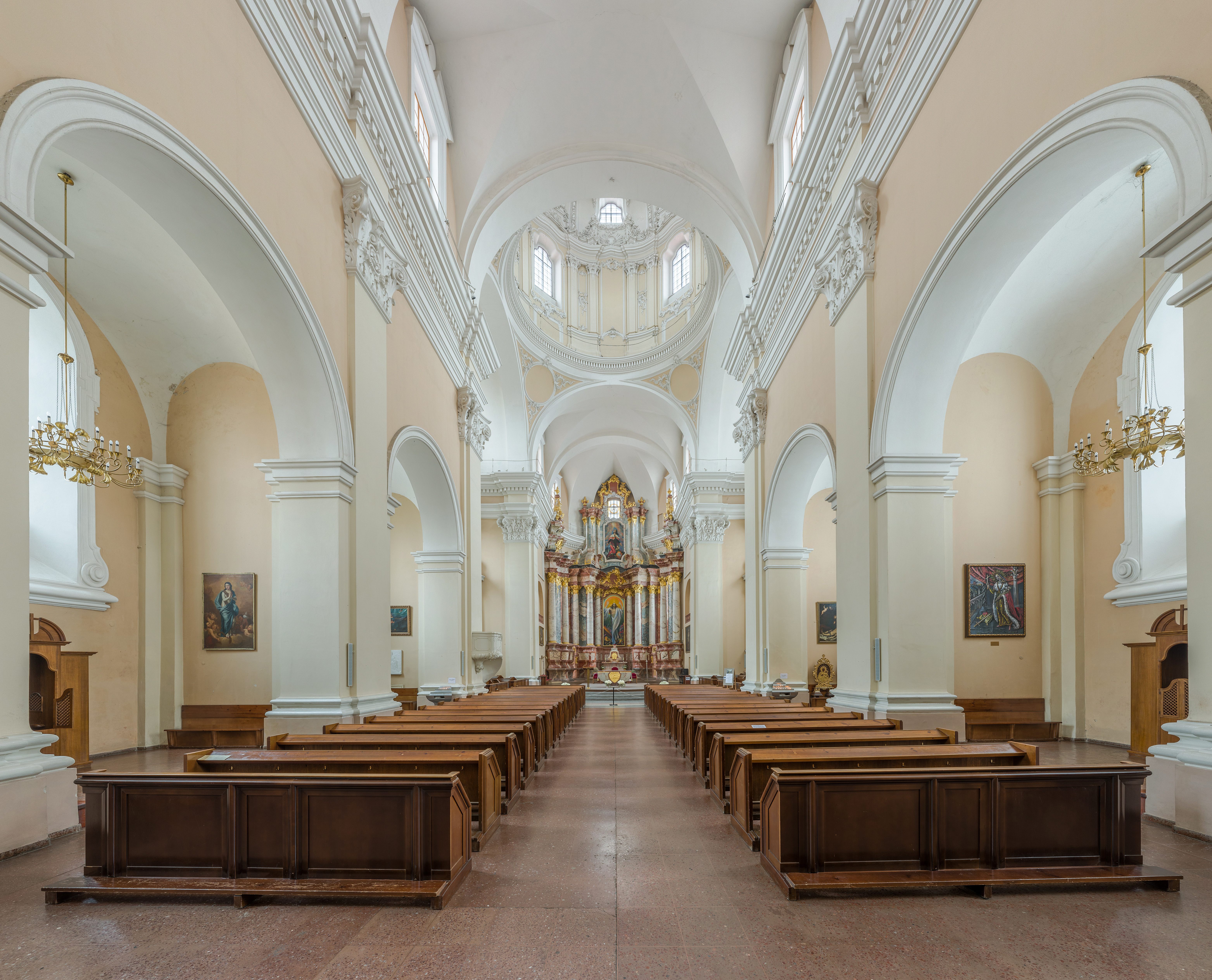 The interior of St Casimir Church looking east in Vilnius, Lithuania.